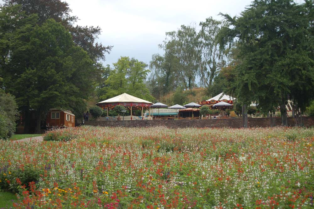 Eliszis Jahrmarktstheater (historic funfair) at Killesberg park in Stuttgart